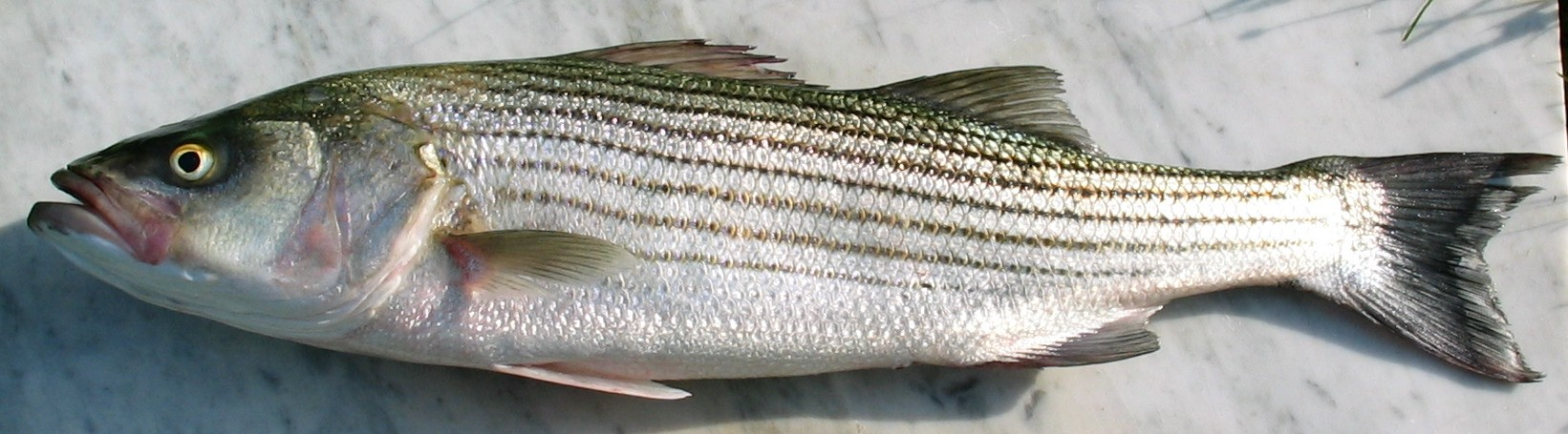 Striped Bass (Morone saxatilis): Caught in Atlantic Ocean, New Jersey and Photographed by Tim Van Vliet.